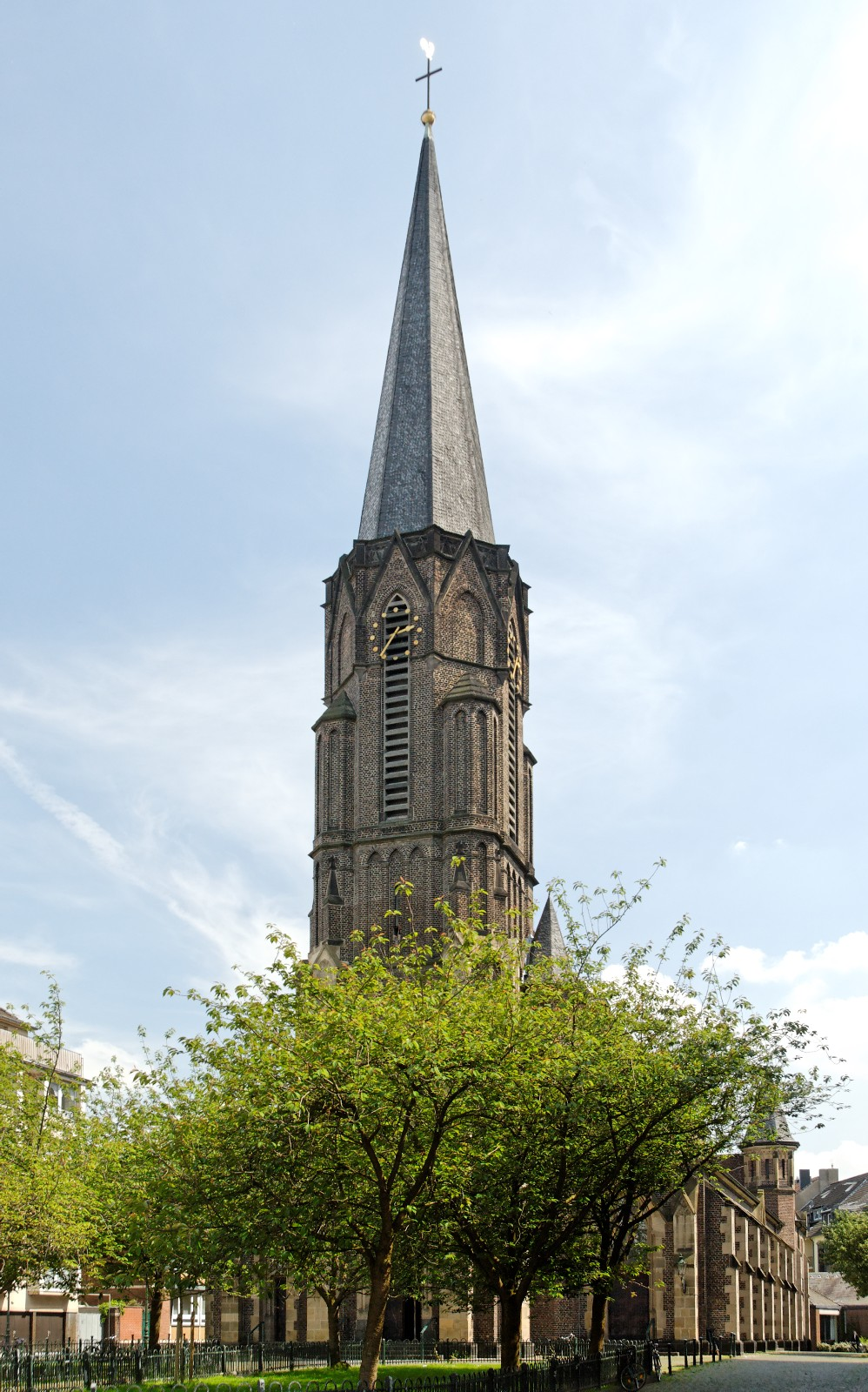 Saint Josef in Düsseldorf-Oberbilk, Germany